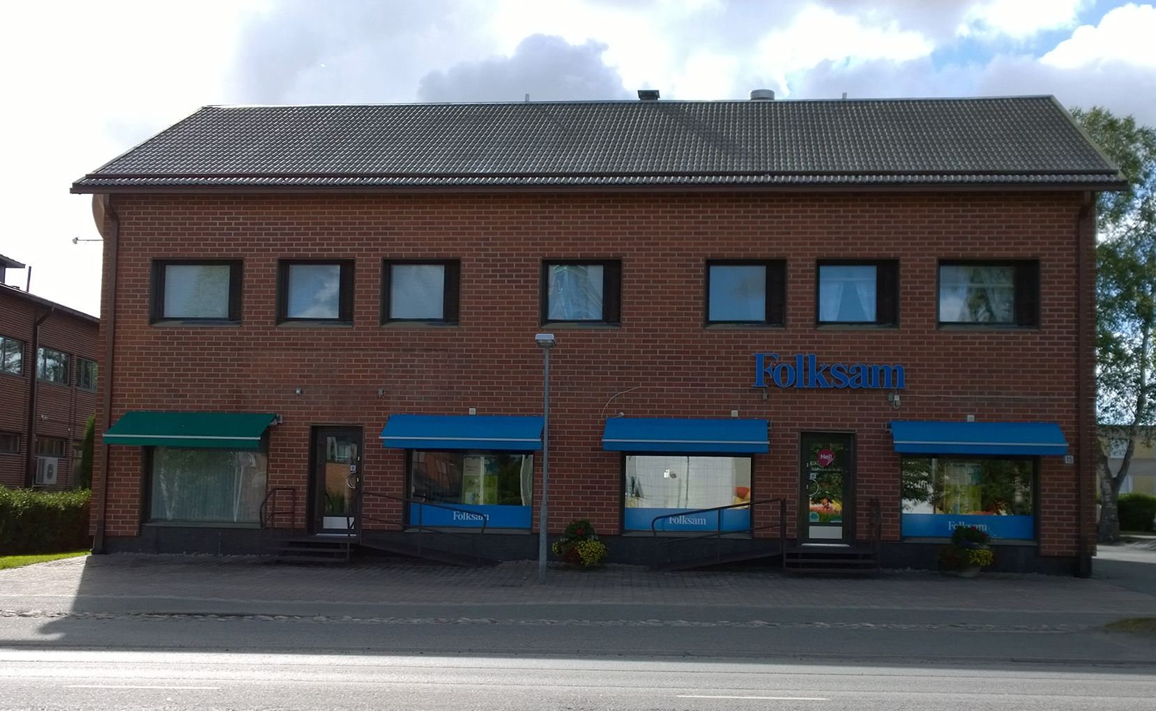 Folksam in Närpes